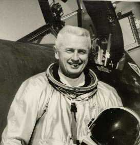 USAF Colonel Robert L. "Silver Fox" Stephens standing by a Lockheed YF-12 in May 1965.